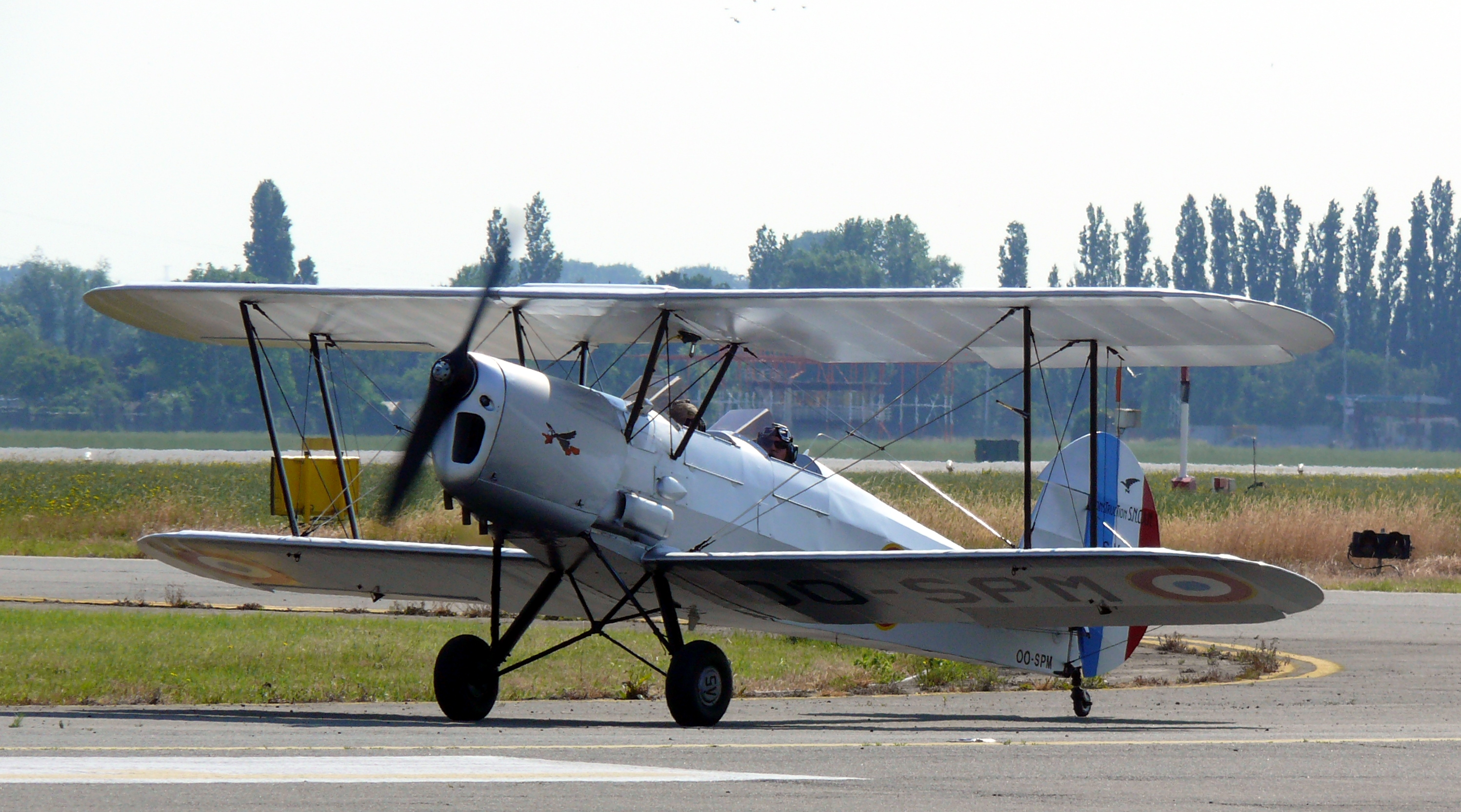 Nord Stampe en Vertongen SV.4C (OO-SPM) during the Stampe Fly-in 2011.